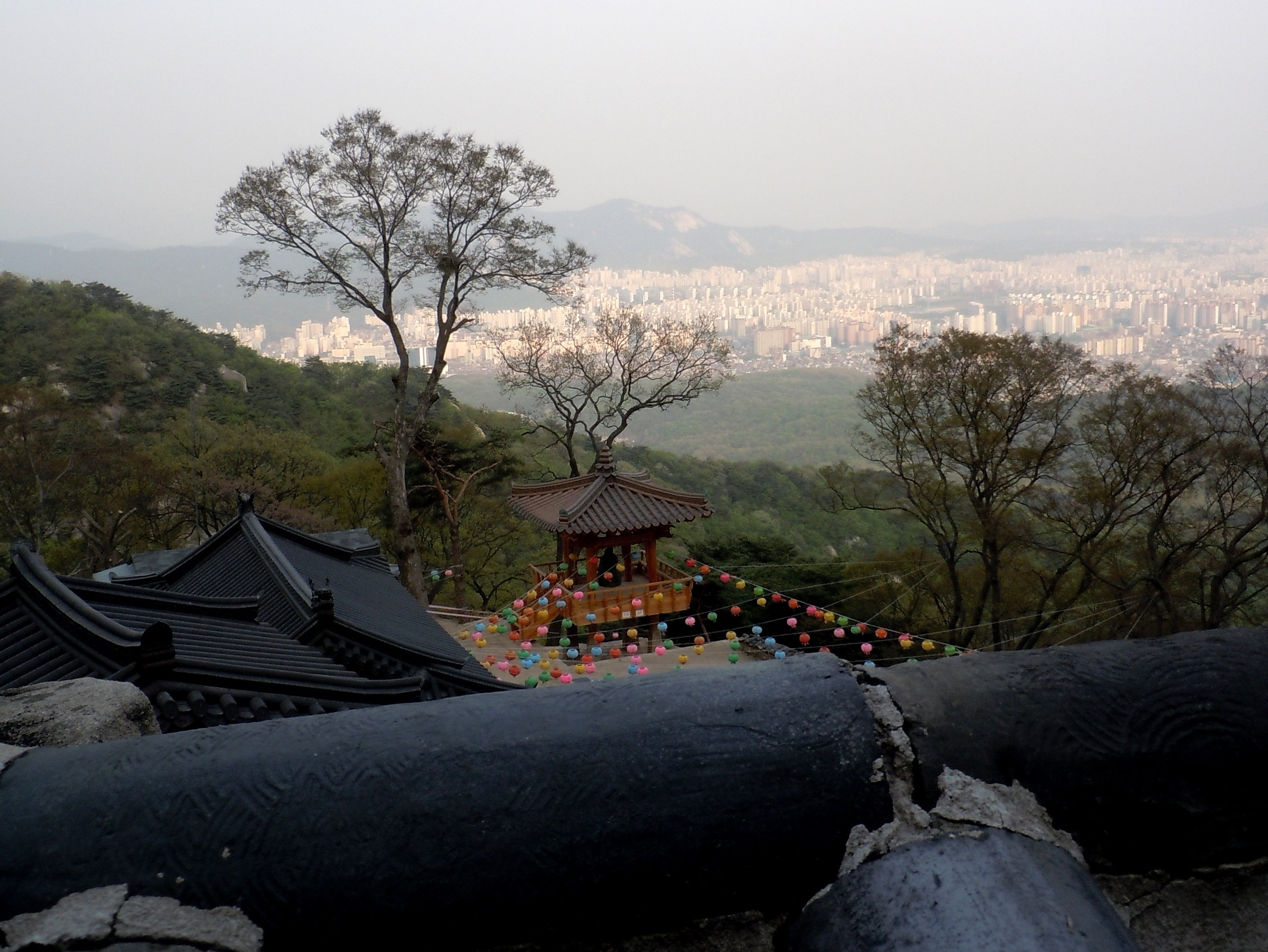 Temple and view near the summit of Dobongsan